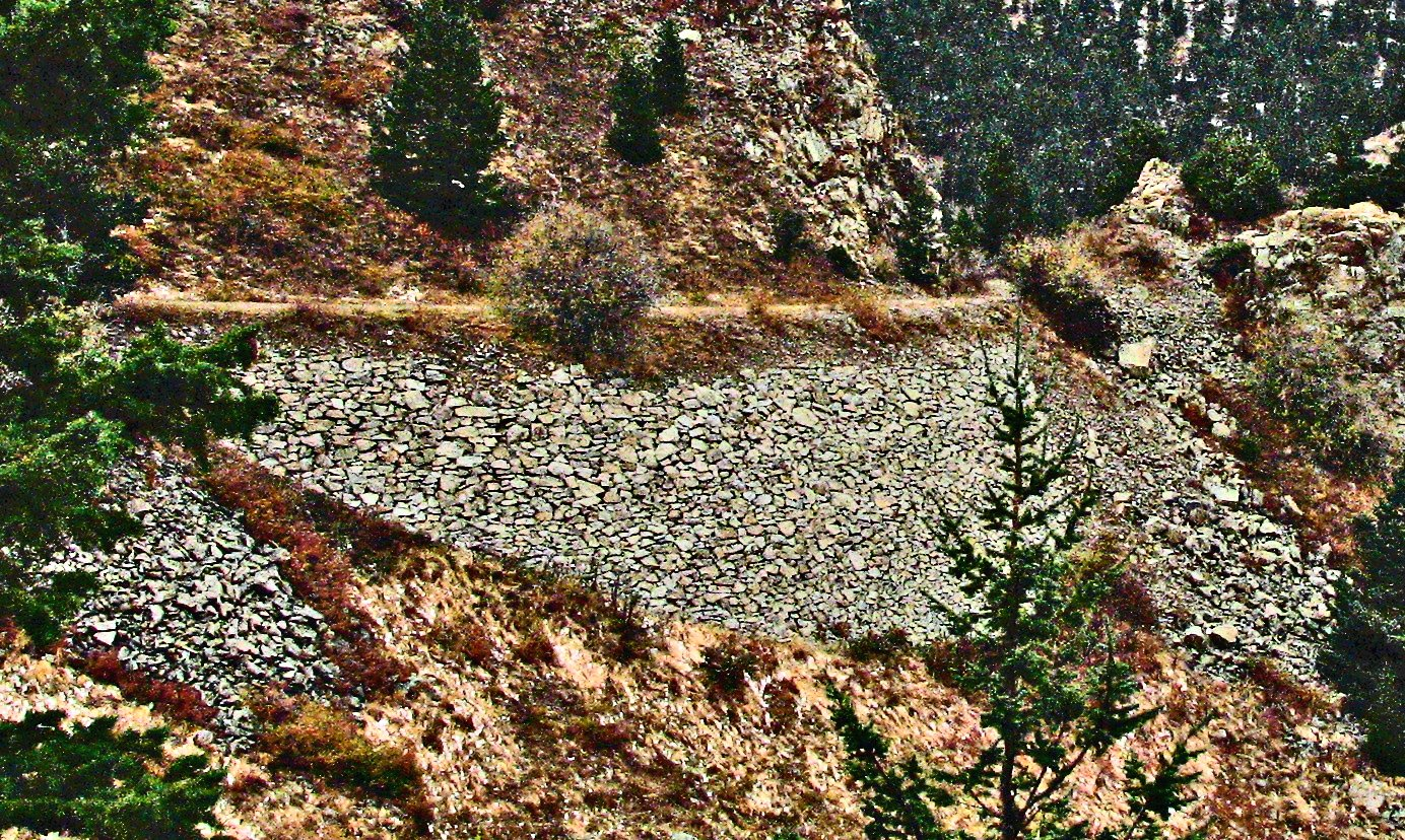 Built about a century ago, the rock base of the Switzerland Trail railroad is still solid. When we stopped here I tried to visualize one of the narrow gauge trains that once carried passengers along the scenic route. The last train ran in 1919. This view is above the small community of Sunset.